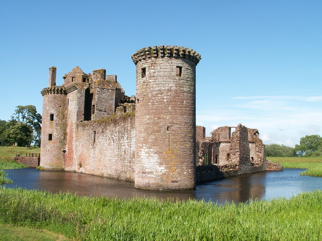 Caerlaverock Castle, Dumfriesshire